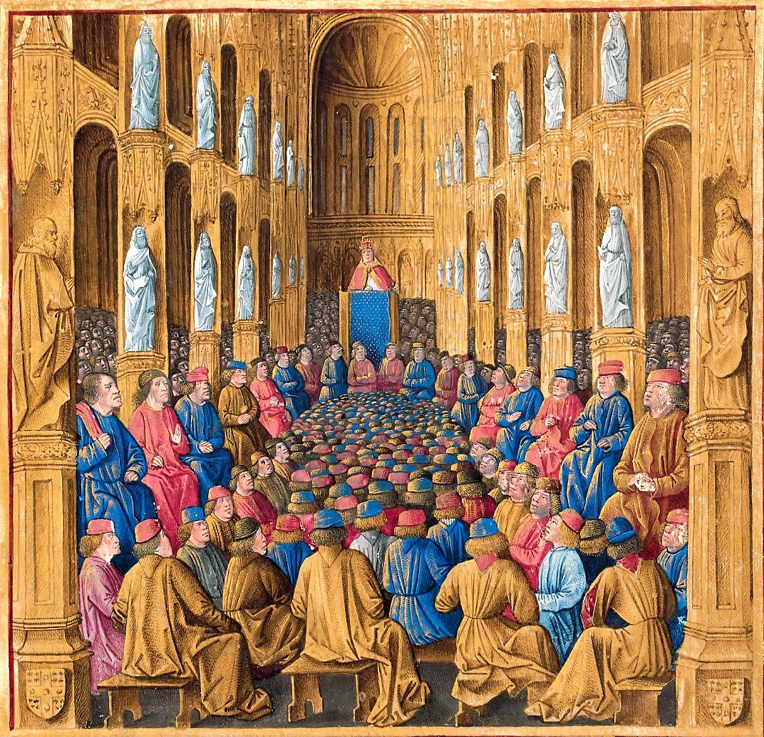 Miniature: Pope Urban II preaching at the Council of Clermont. Sébastien Mamerot, Les passages d'outremer